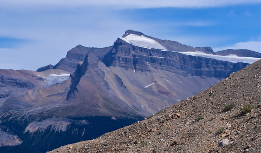 Mount Balfour seen from Iceline Trail in Yoho National Park, Canada